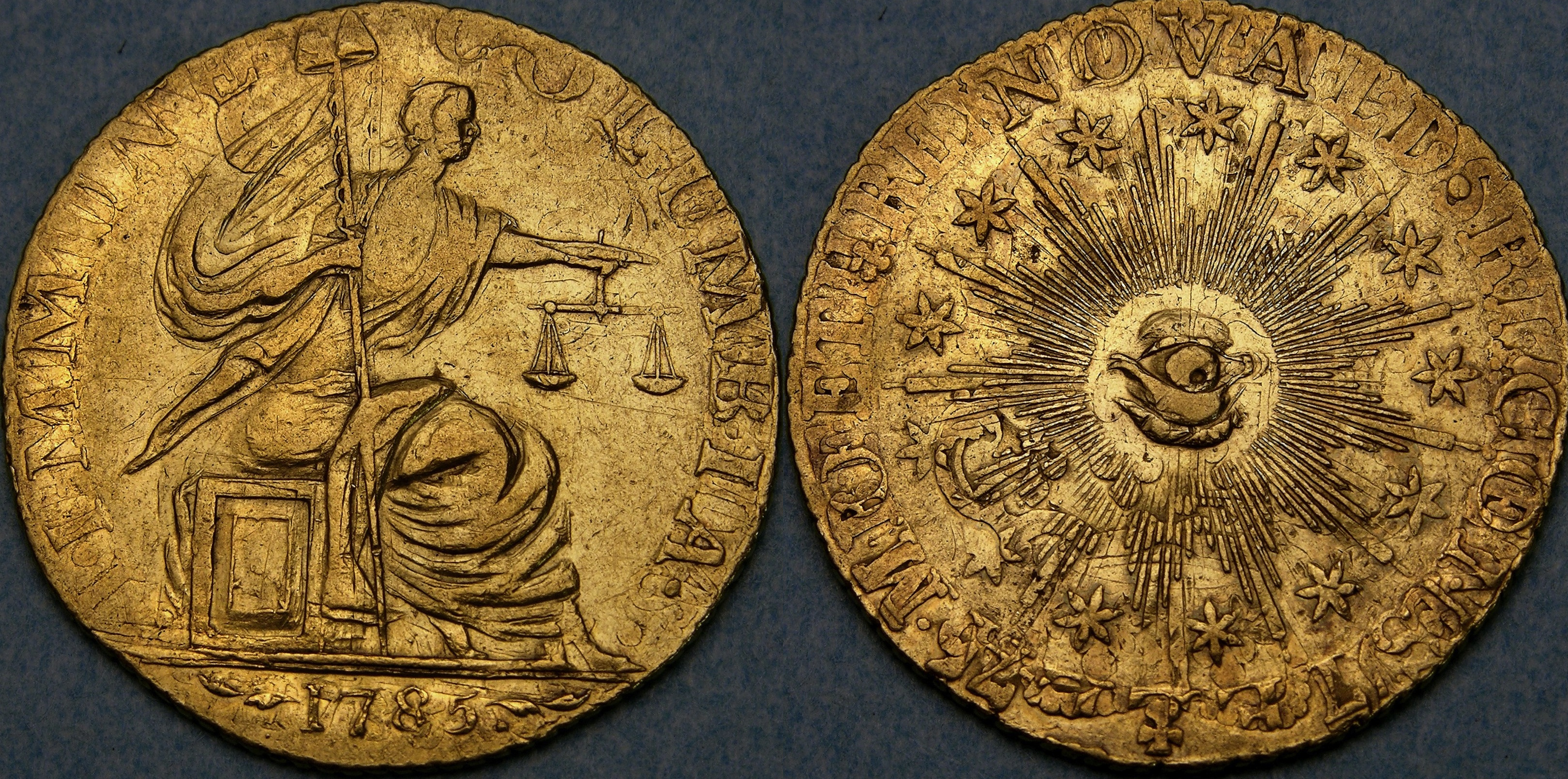 Obverse and reverse of an Immune Columbia coin in gold